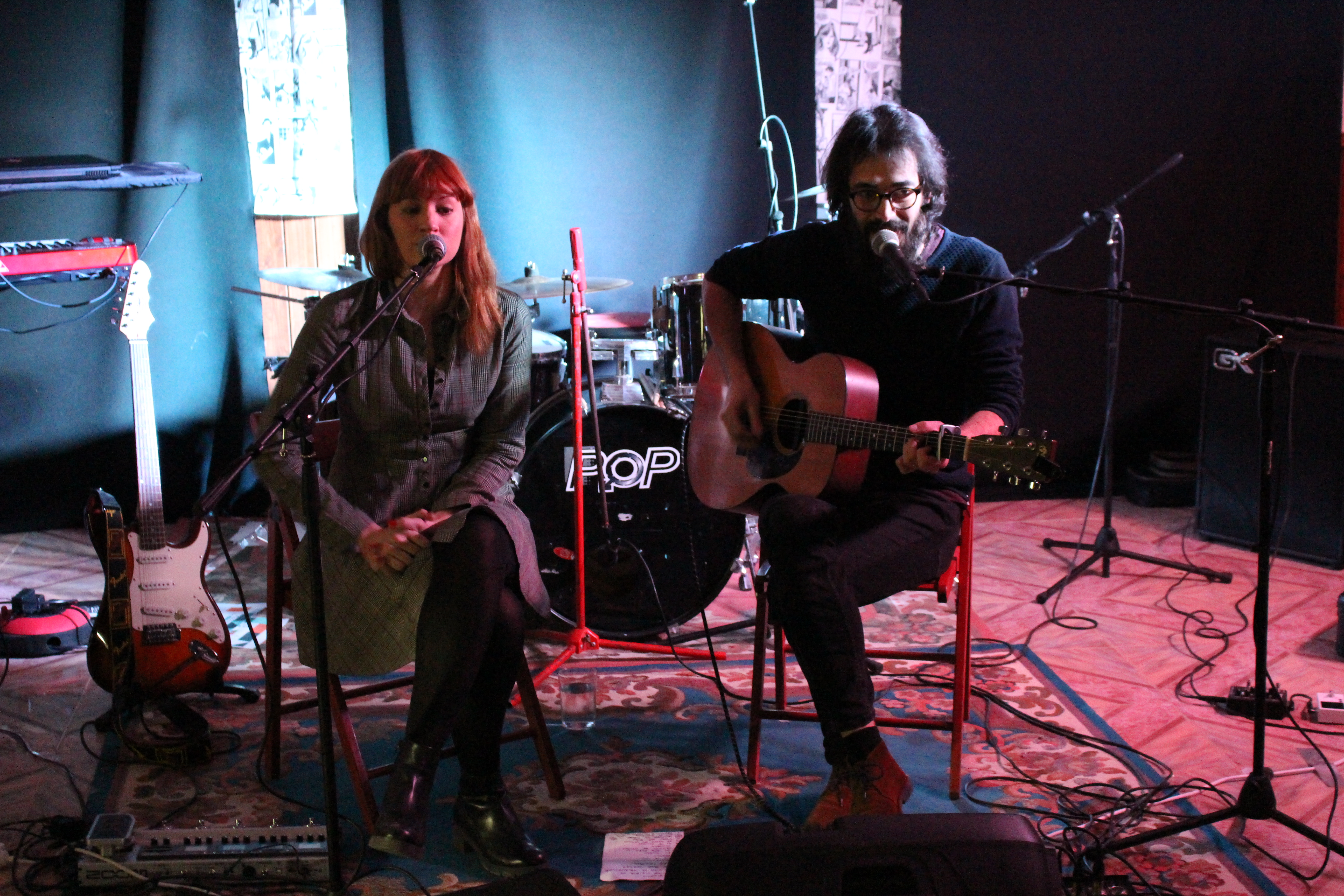 Acoustic concert of Dolorosa in Jaén (February 10, 2018), within the Second "Good Meetings" Conference organized by Que No Cervezas i Mas